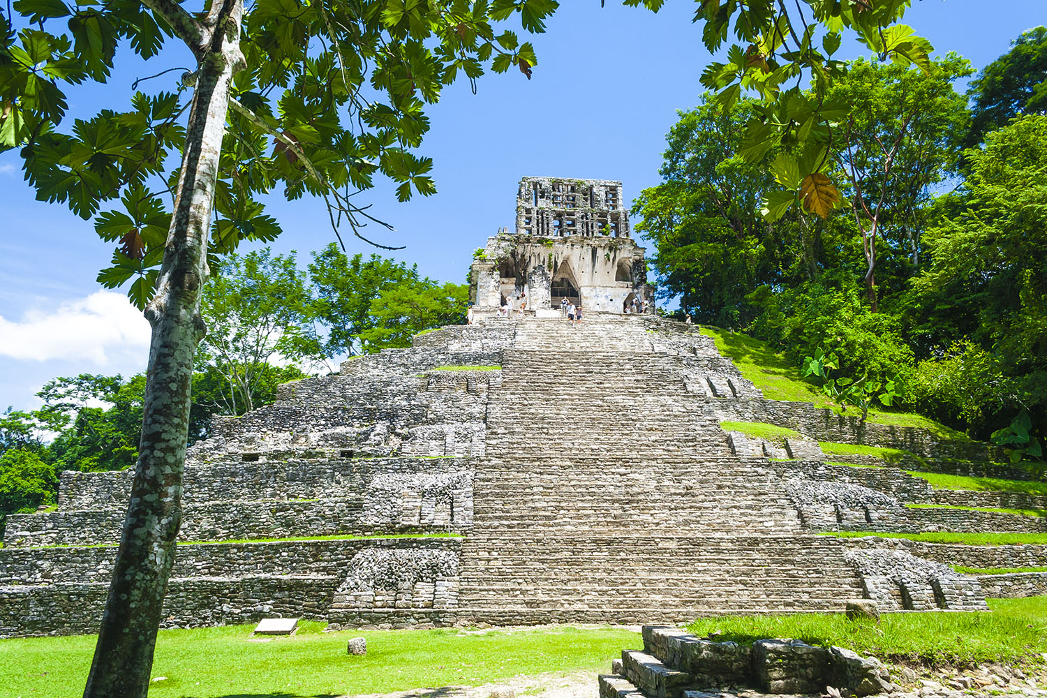 Palenque (Chiapas, Mexiko), Cross Group, Cross temple